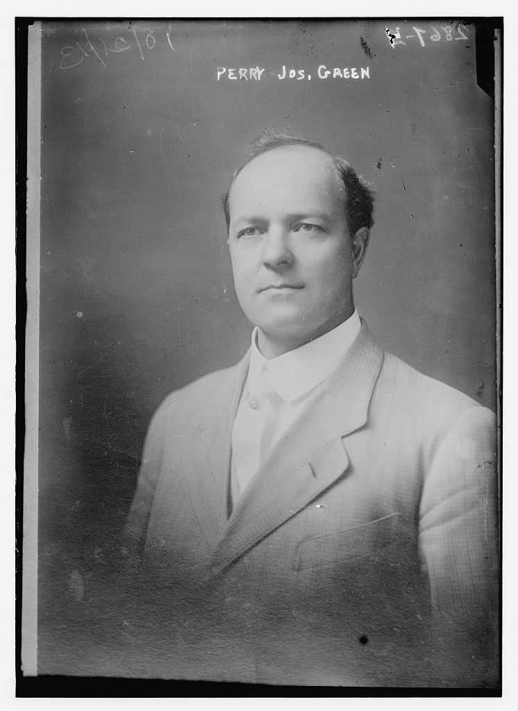 Bain News Service,, publisher. Perry Joseph Green [between ca. 1910 and ca. 1915] 1 negative : glass ; 5 x 7 in. or smaller. Notes: Title from unverified data provided by the Bain News Service on the negatives or caption cards. Forms part of: George Grantham Bain Collection (Library of Congress). Format: Glass negatives. Repository: Library of Congress, Prints and Photographs Division, Washington, D.C. 20540 USA, General information about the Bain Collection is available at Persistent URL: Call Number: LC-B2- 2867-4